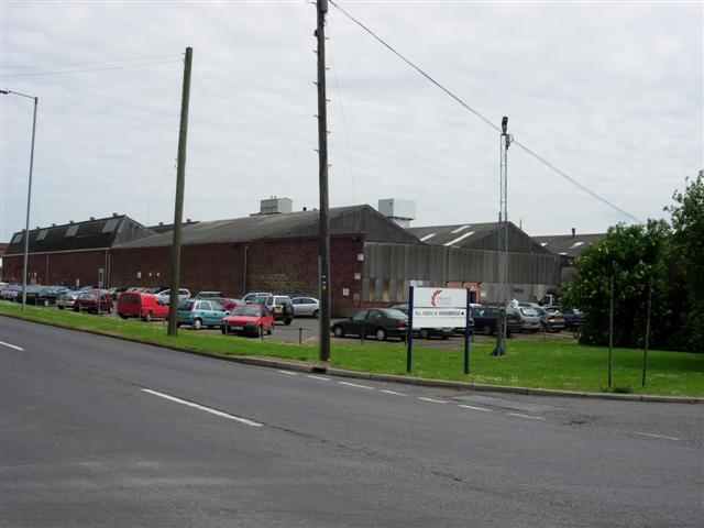 Premier Foods factory, Little Sutton.